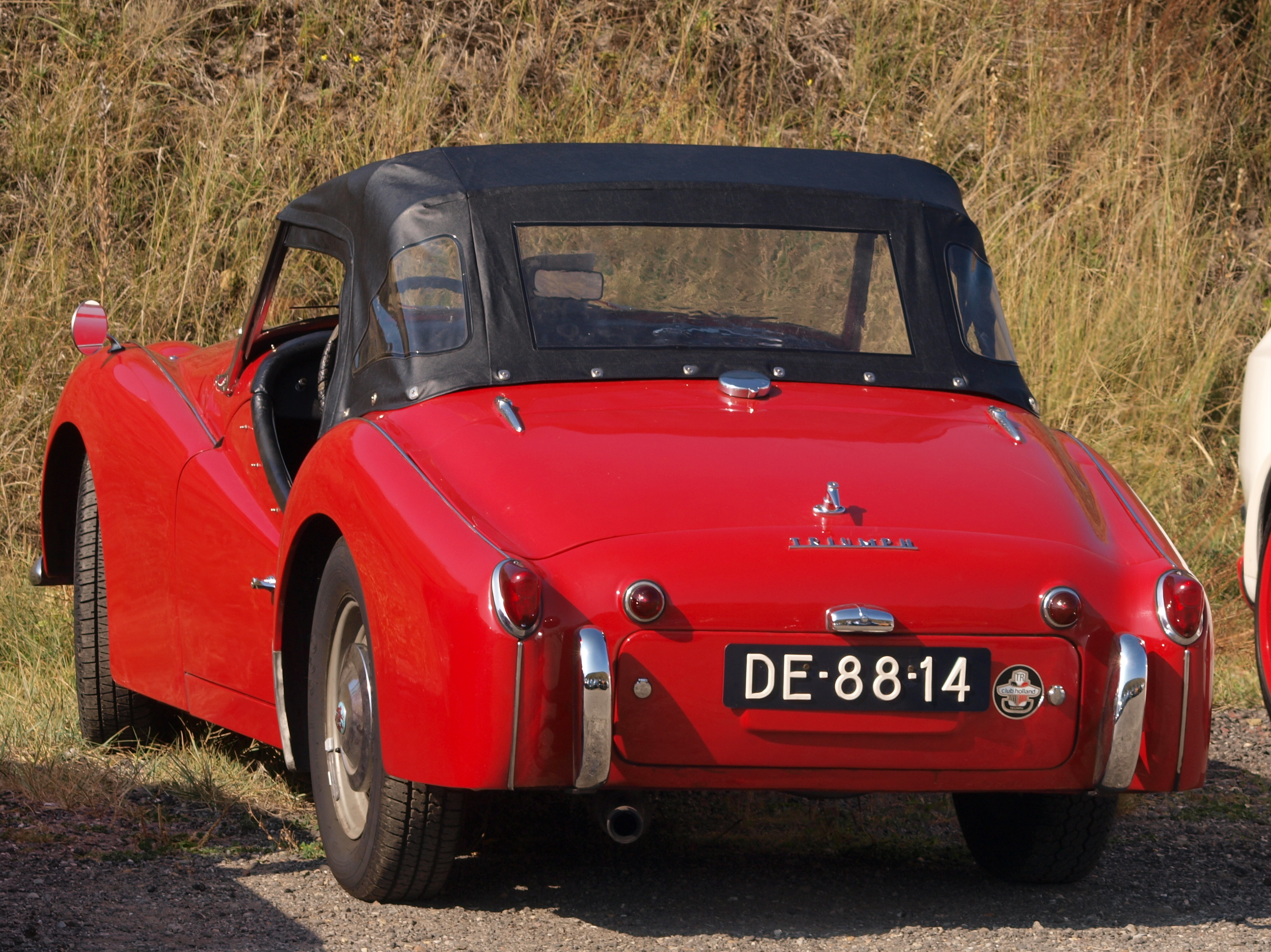 Photographed at the Nationaal Oldtimer Festival Zandvoort 2009, The Netherlands. OLYMPUS DIGITAL CAMERA